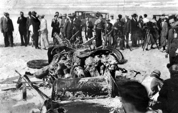 Aftermath of Lee Bible's crash, during his 1929 attempt on the land speed record at Ormond Beach, driving the White Triplex.